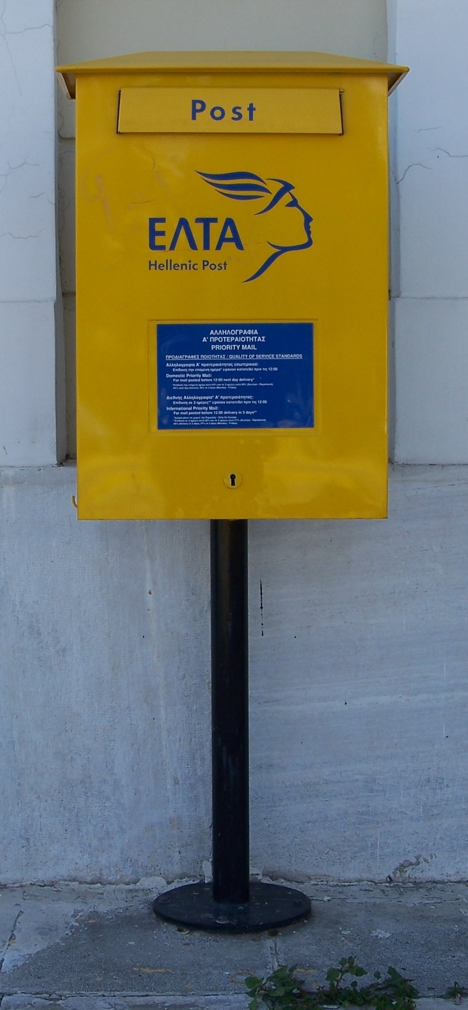 A typical mailbox of ELTA (Greek post).